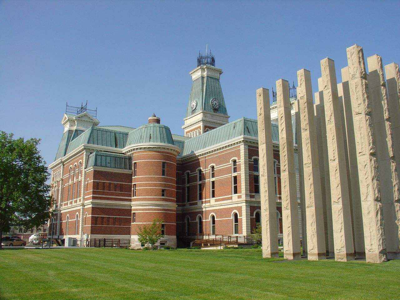 Bartholomew County Courthouse and Veterans Memorial, Columbus, Indiana, USA